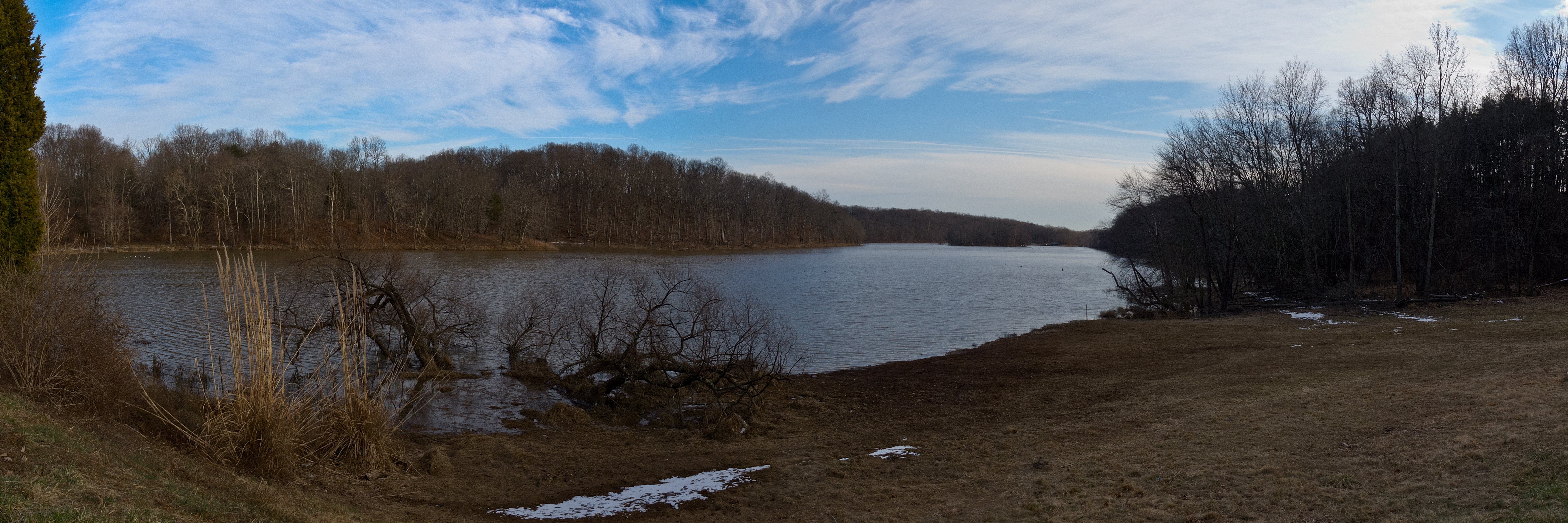 View of Lake Needwood from Needwood Rd in winter